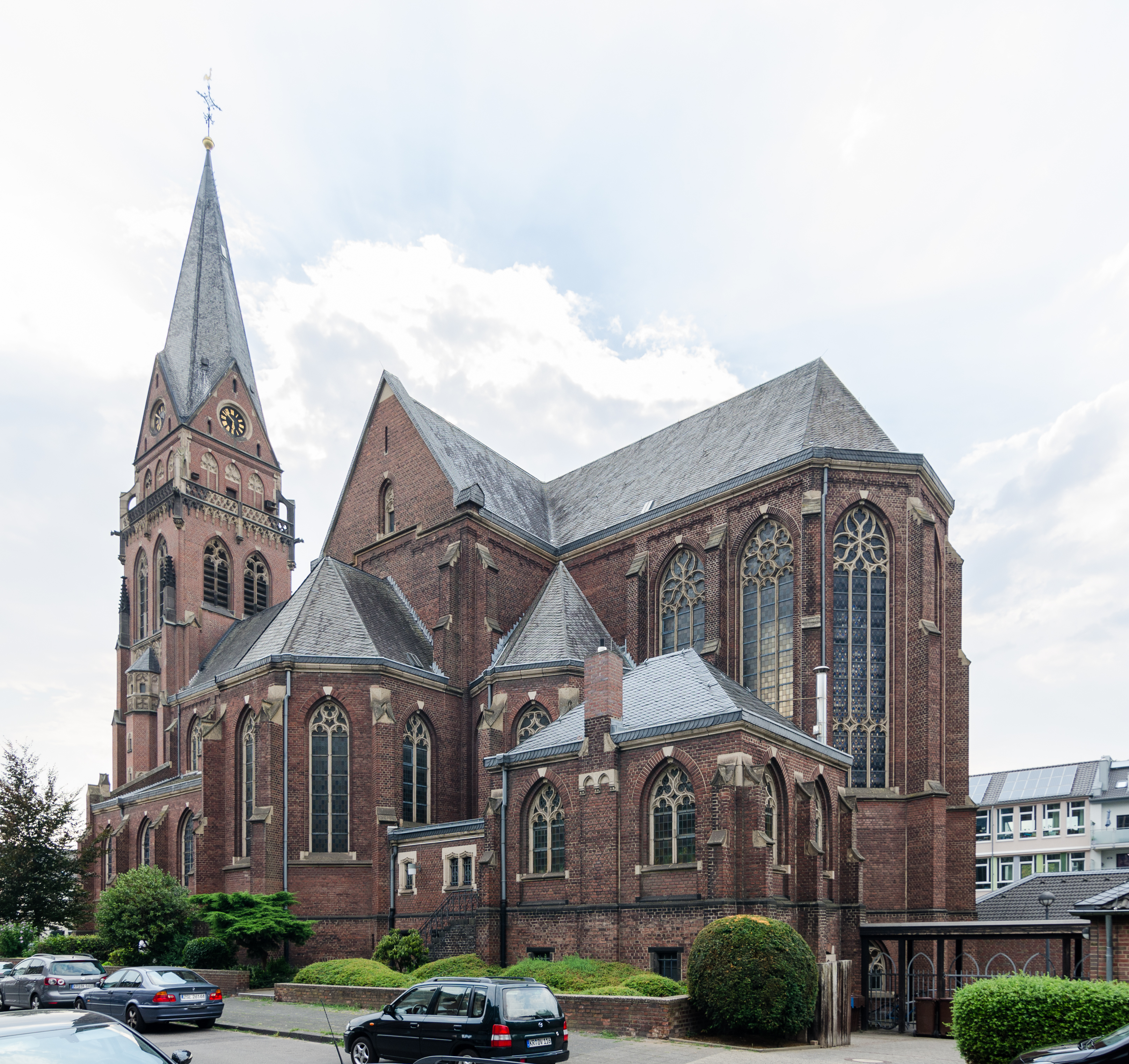 Krefeld (North Rhine-Westphalia, Germany) – district Inrath – Catholic Saint Anne's Church – view from the northeast